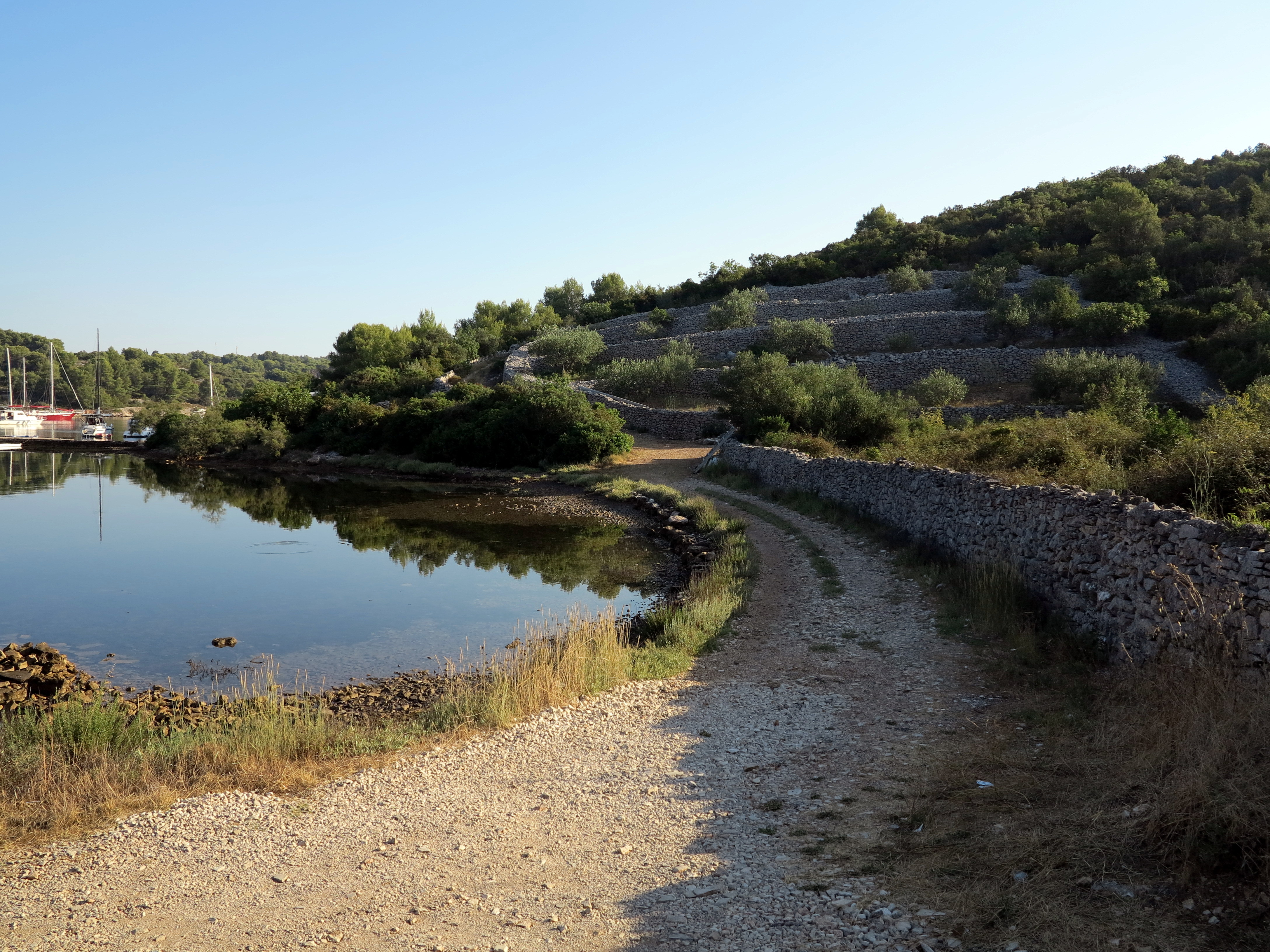 Piškera, rearmost part of the Bay of Nečujam, island of Šolta / Croatia / Adriatic Sea.